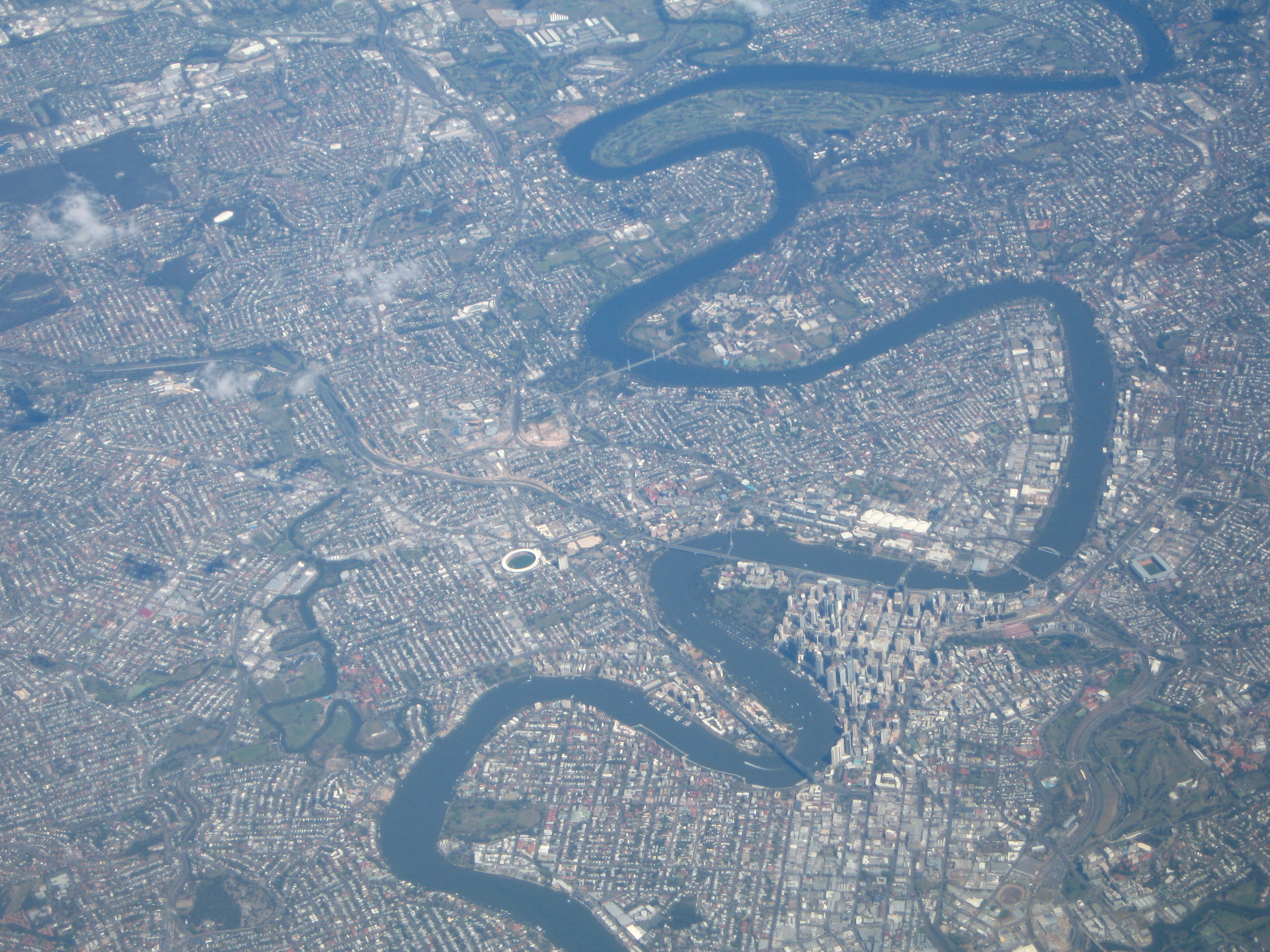 Aerial view of the Brisbane River, Queensland, Australia